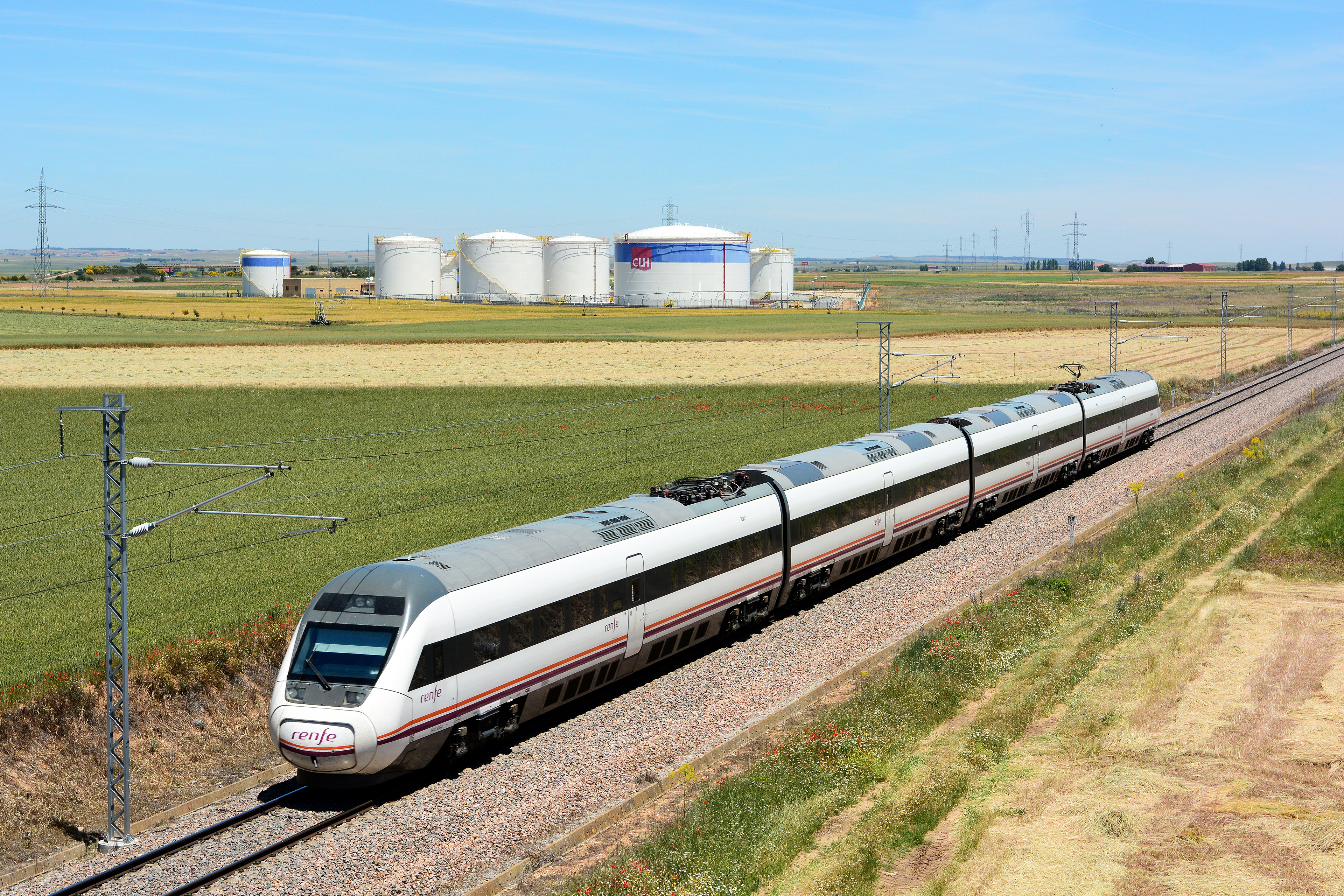 Com destino a Salamanca